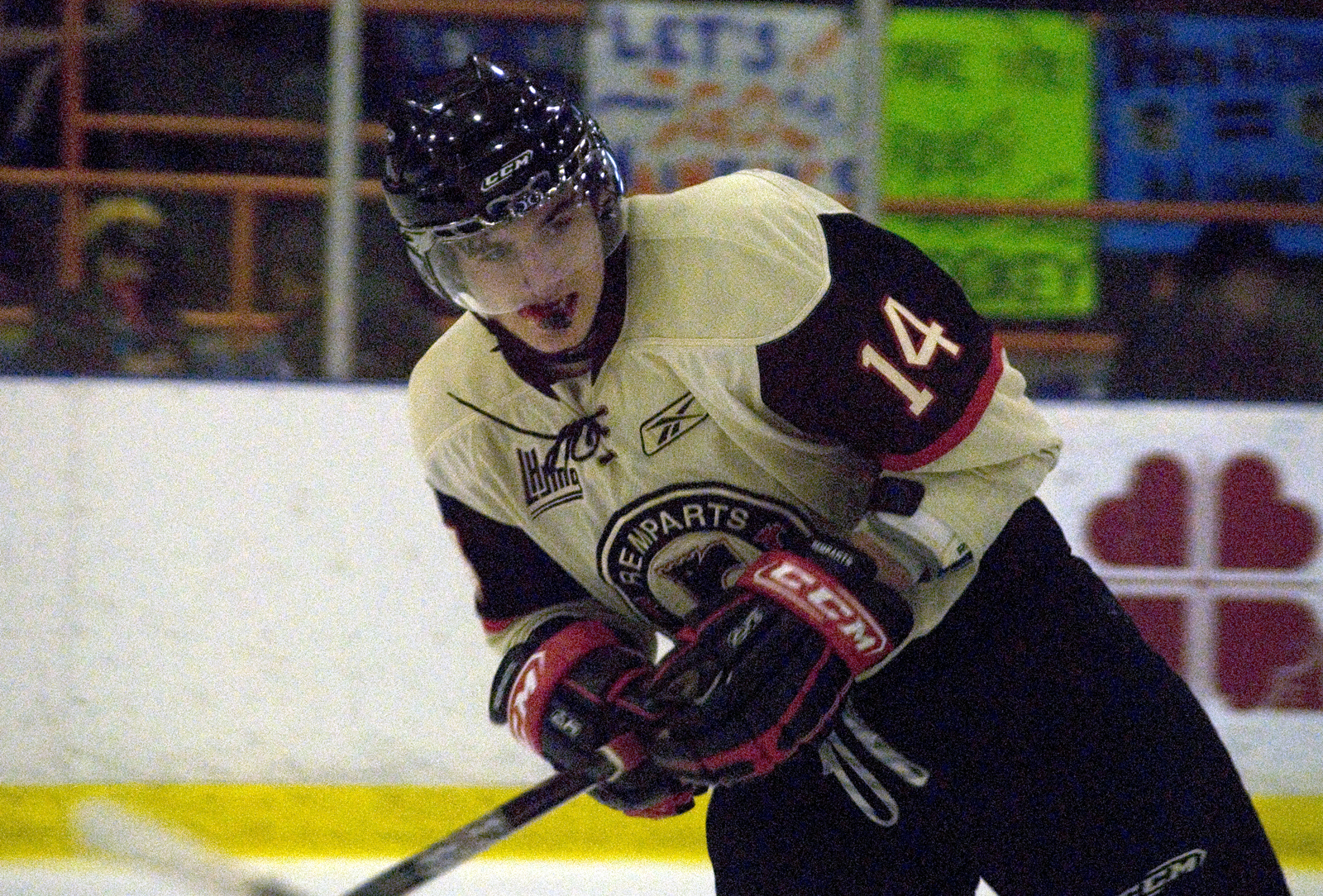 Tomas Filippi #14 Lewiston MAINEiacs vs. Quebec Remparts, February 12, 2011. Quebec Major Junior Hockey League (QMJHL). Remparts won 4-2. This photo also appears in Sarah Connors Flickr set "MAINEiacs vs. Remparts, 2/12/11" (Set of 35)